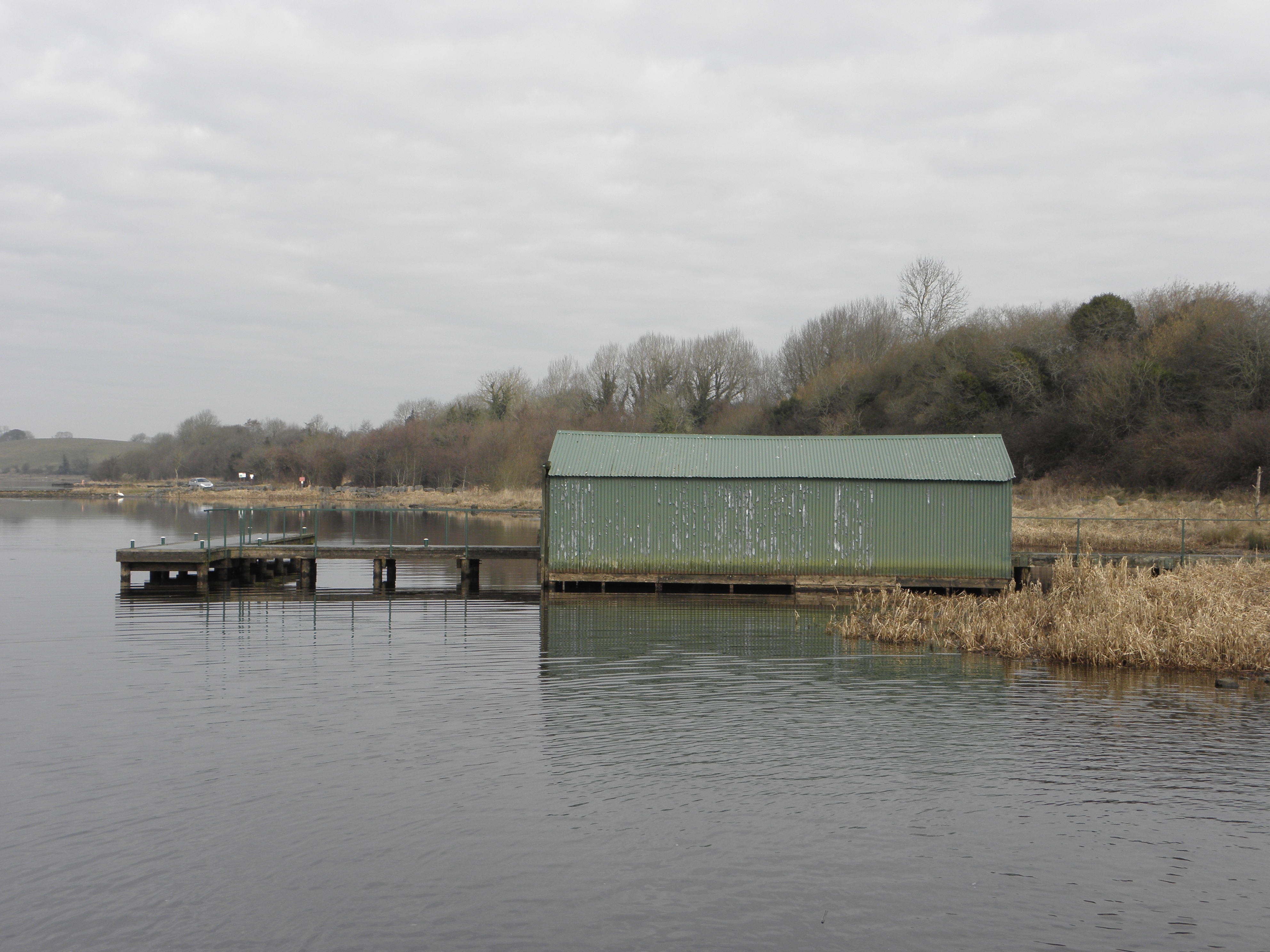 Boat house at Trory, Lough Erne